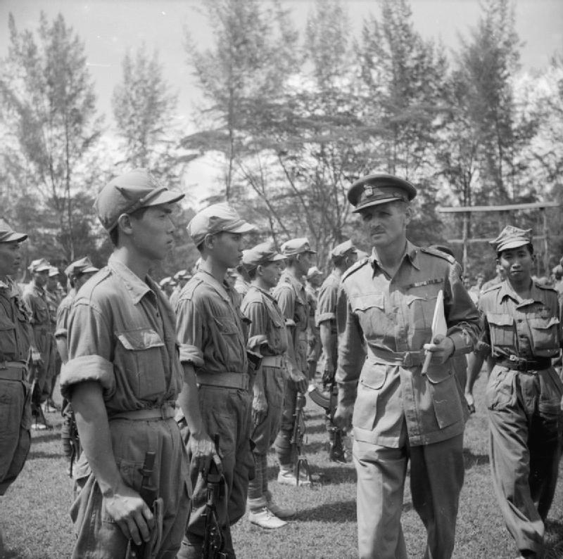 The British Reoccupation of Malaya Brigadier J J McCully DSO inspects men of the 4th Regiment of Guerillas during their disbandment ceremony at Johore Bharu.